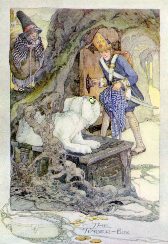 "The Tinder Box"